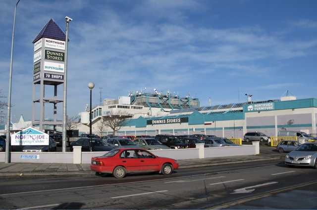 Northside Shopping Centre, Coolock, Dublin, Ireland One of the largest shopping centres in the northside of Dublin has over 70 shops. The 38-year-old shopping centre, in Coolock, Dublin 17, is to be demolished and a new shopping centre built in another location as part of a €1 billion proposal to develop a Northside Town Centre.